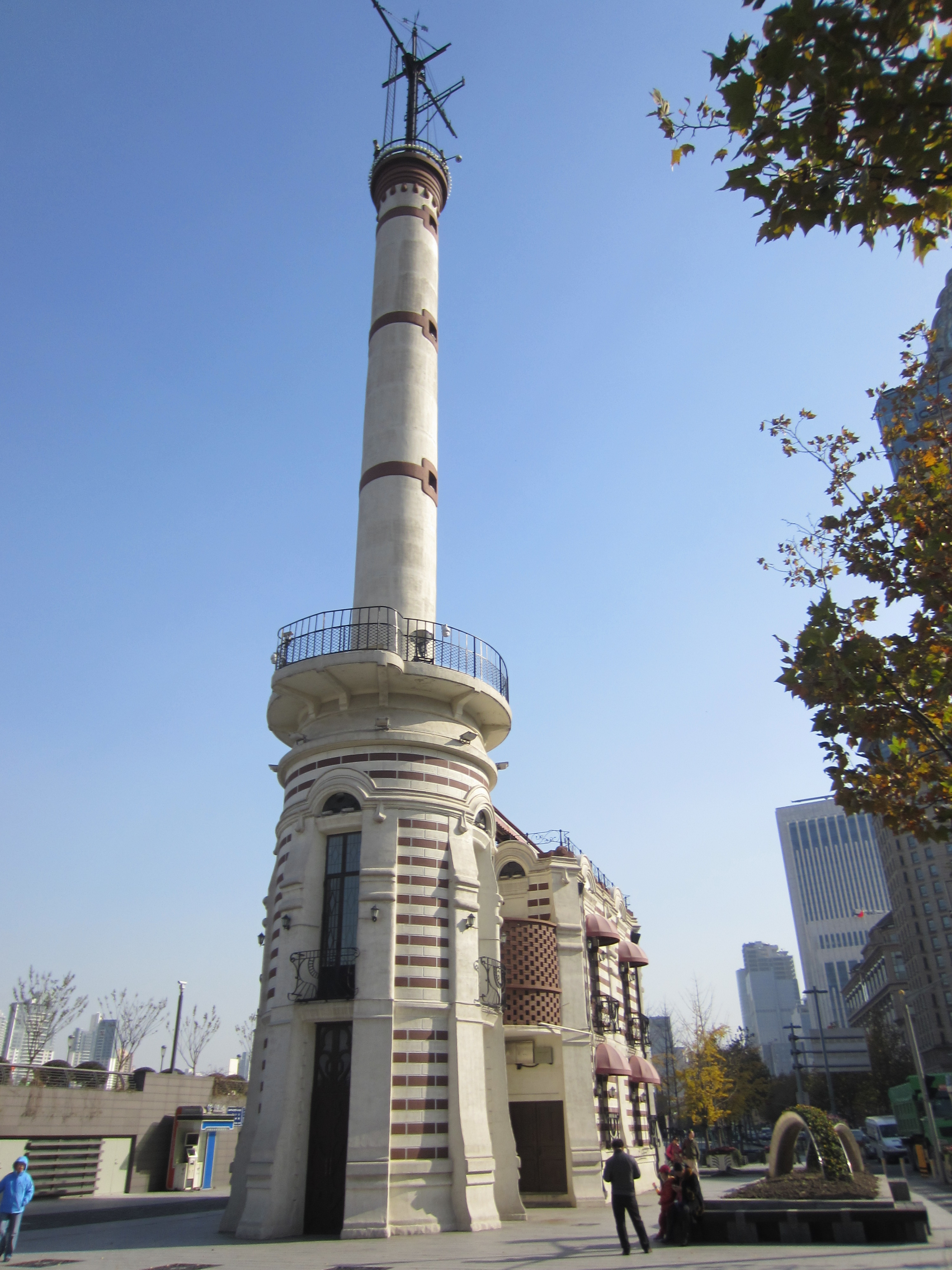 Shanghai, China, December 2015